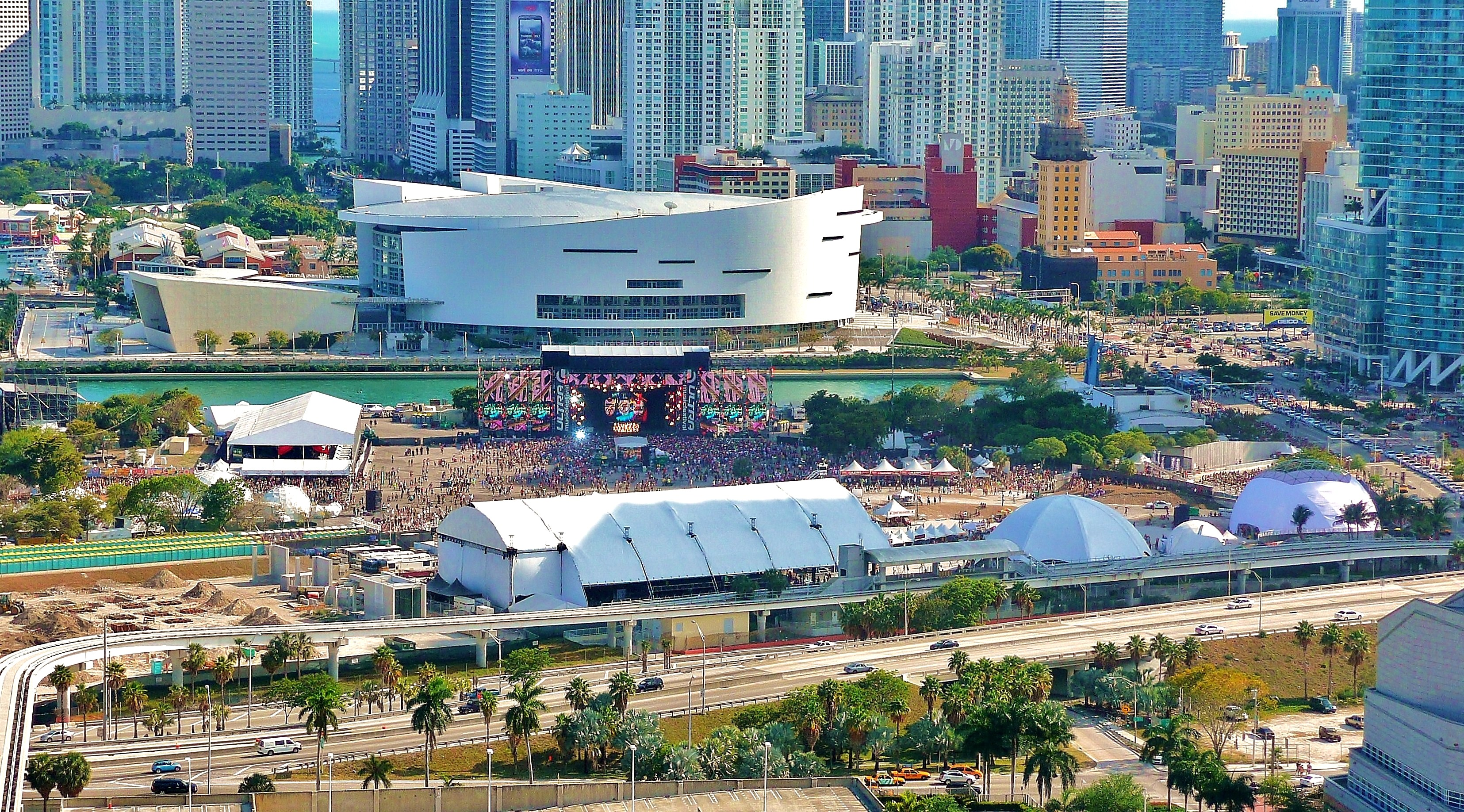 Digital photo taken by Marc Averette. Ultra Music Festival in Downtown Miami, Florida, United States.